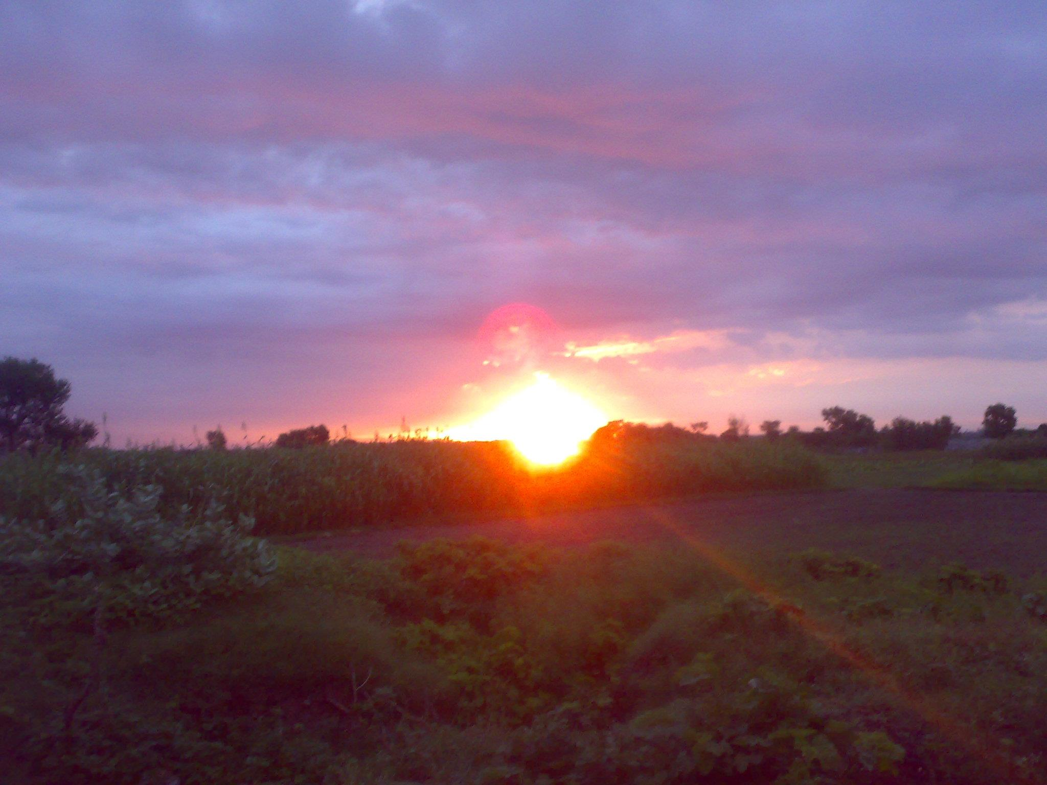 Beautiful View